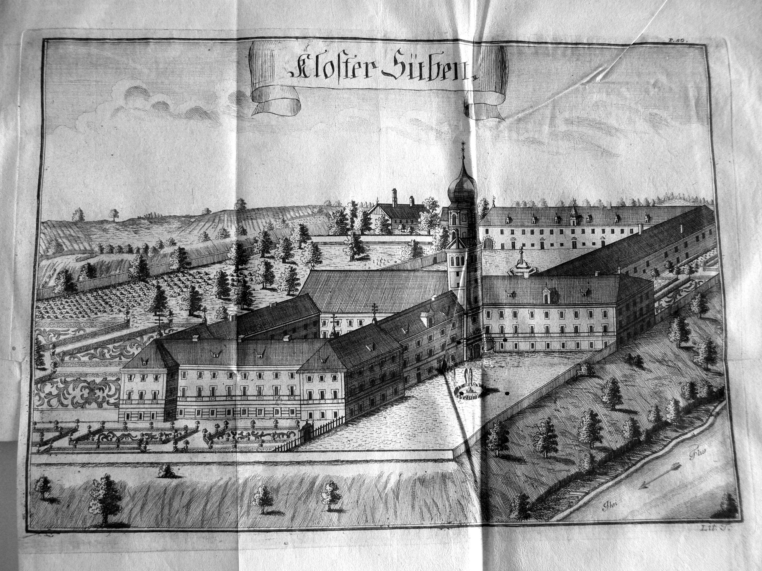 Engraving of Suben monastery ( Innviertel/ Upper Austria ) 1779.